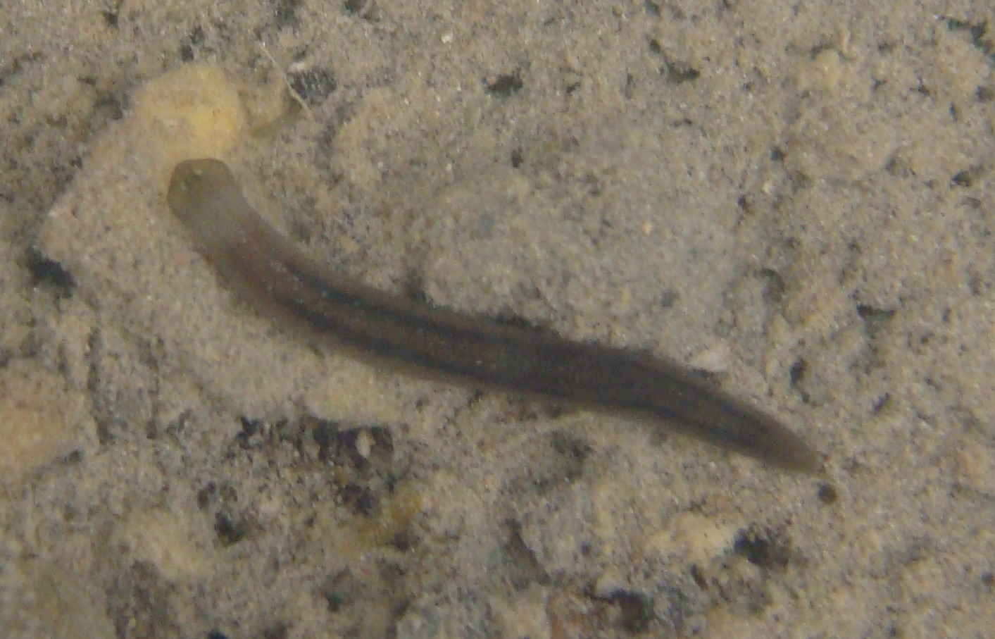 Living specimen of Recurva postrema from the species type locality in Rhodes, Greece.